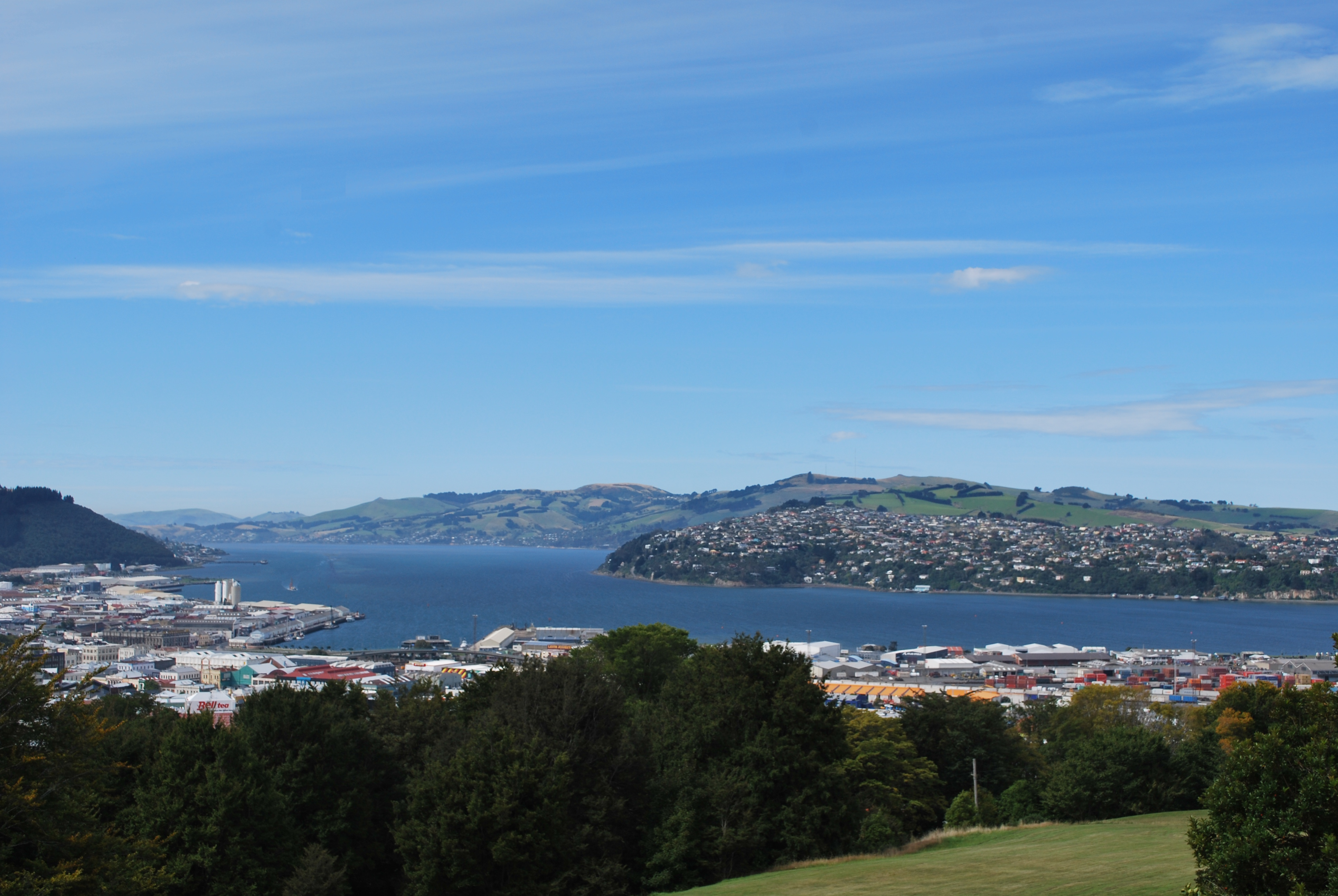 Dunedin, New Zealand seen from the Unity Park lookout